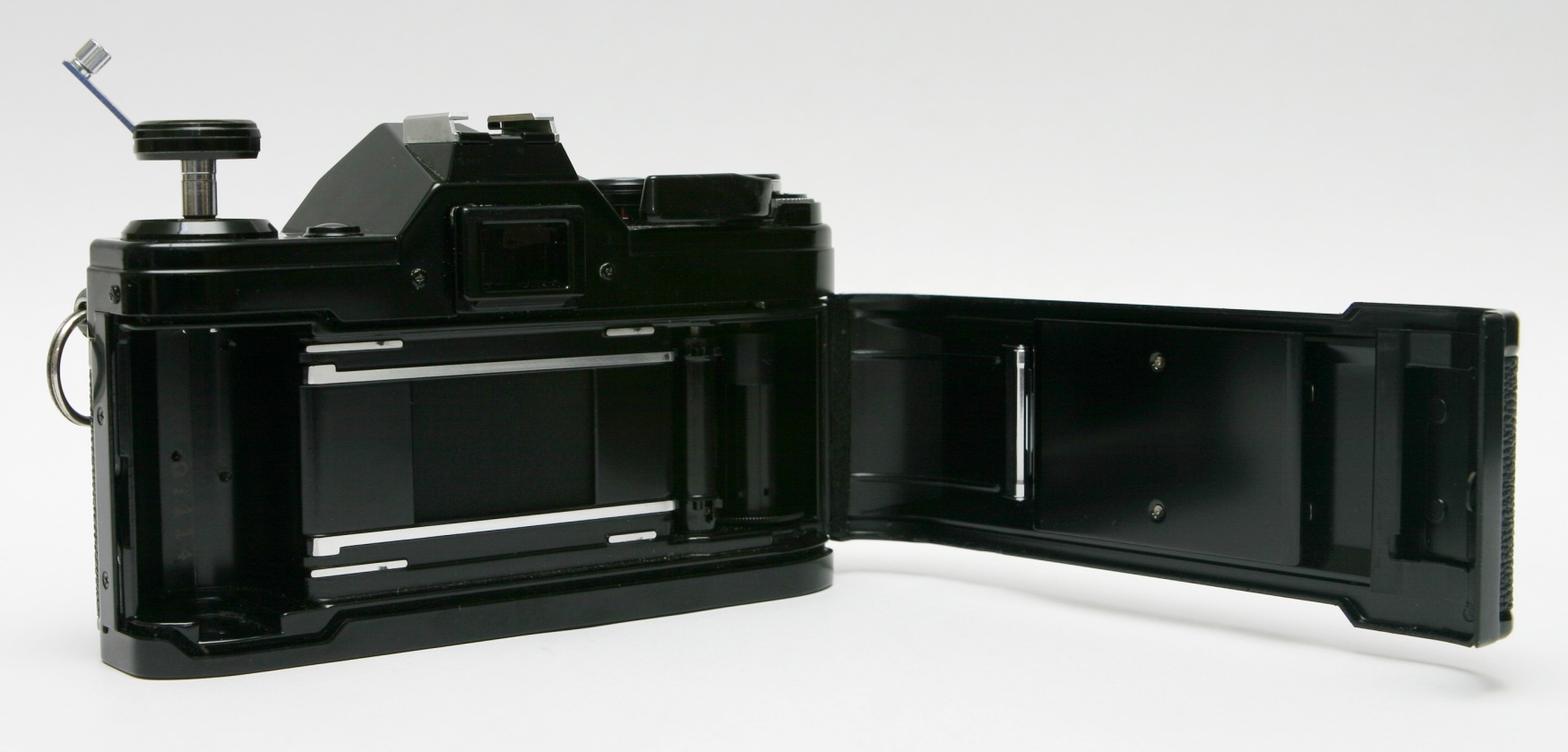 Black Canon AE-1 (1976) SLR camera from the back with the film cover open